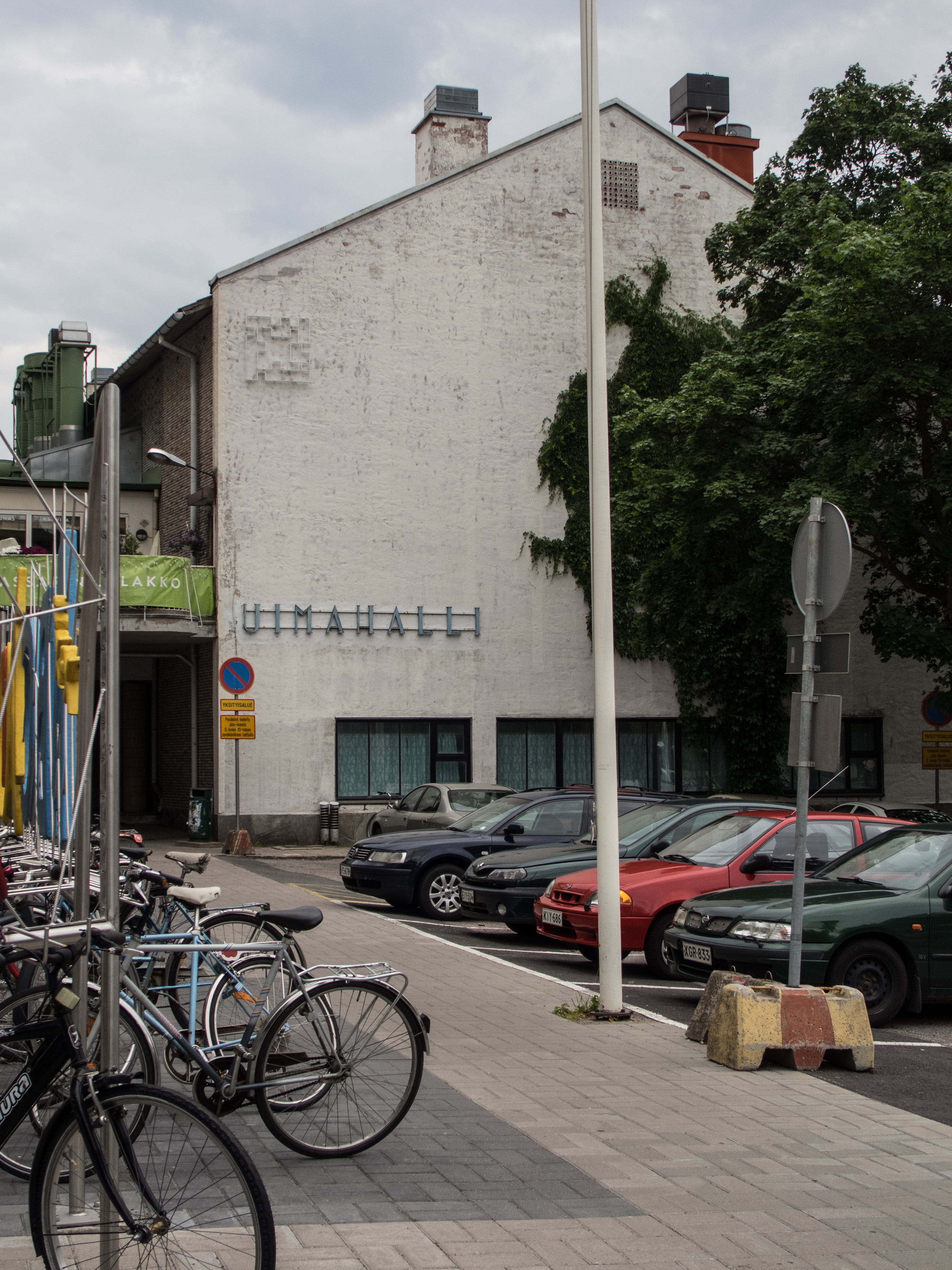 Turku's first indoor pool by the Ylioppilastalo student dormitory on Rehtorinpellonkatu, Turku, Finland. Architect Erik Bryggman, 1954.